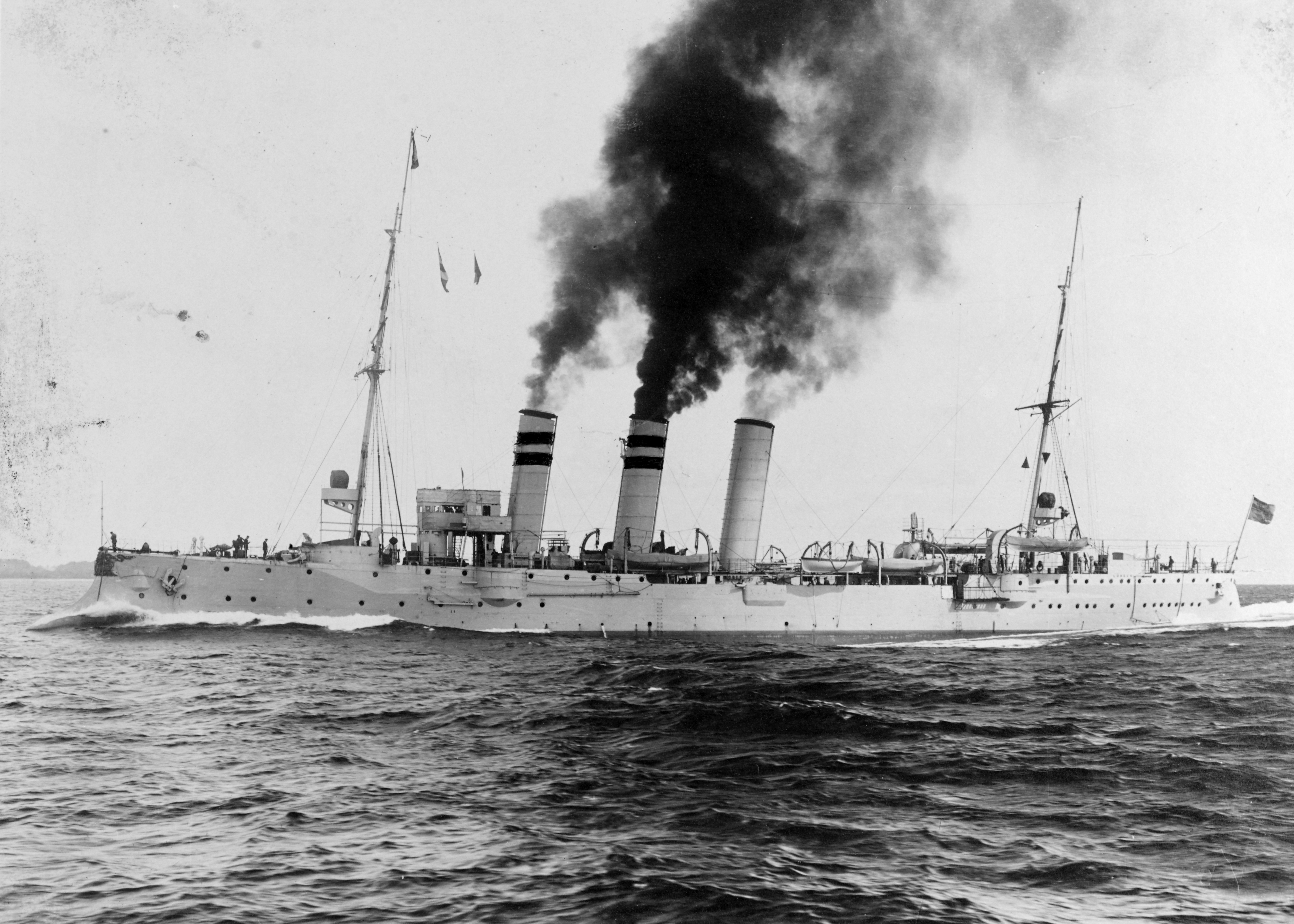 Title: LUBECK (German light cruiser, 1904-1923) Caption: Photographed early in her career. This ship was completed on 26 April 1905; the photograph was received by the U.S. Navy Office of Naval Intelligence (ONI) on 7 May 1908. The two black funnel bands on the two forward funnels were added after the photo was made, apparently to reflect a later (then current) appearance.